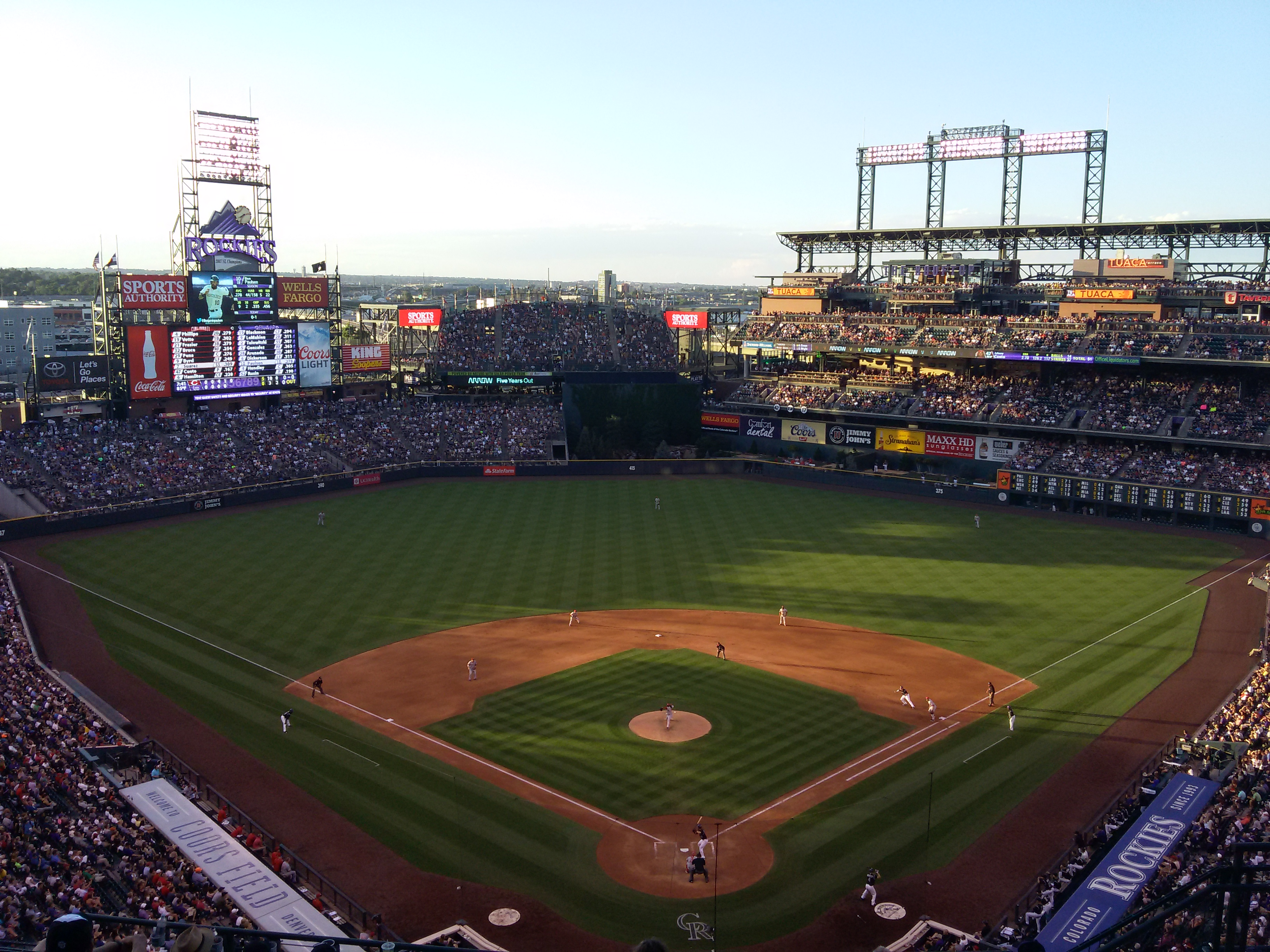 Rockies vs. Reds. Tulo's final home game.